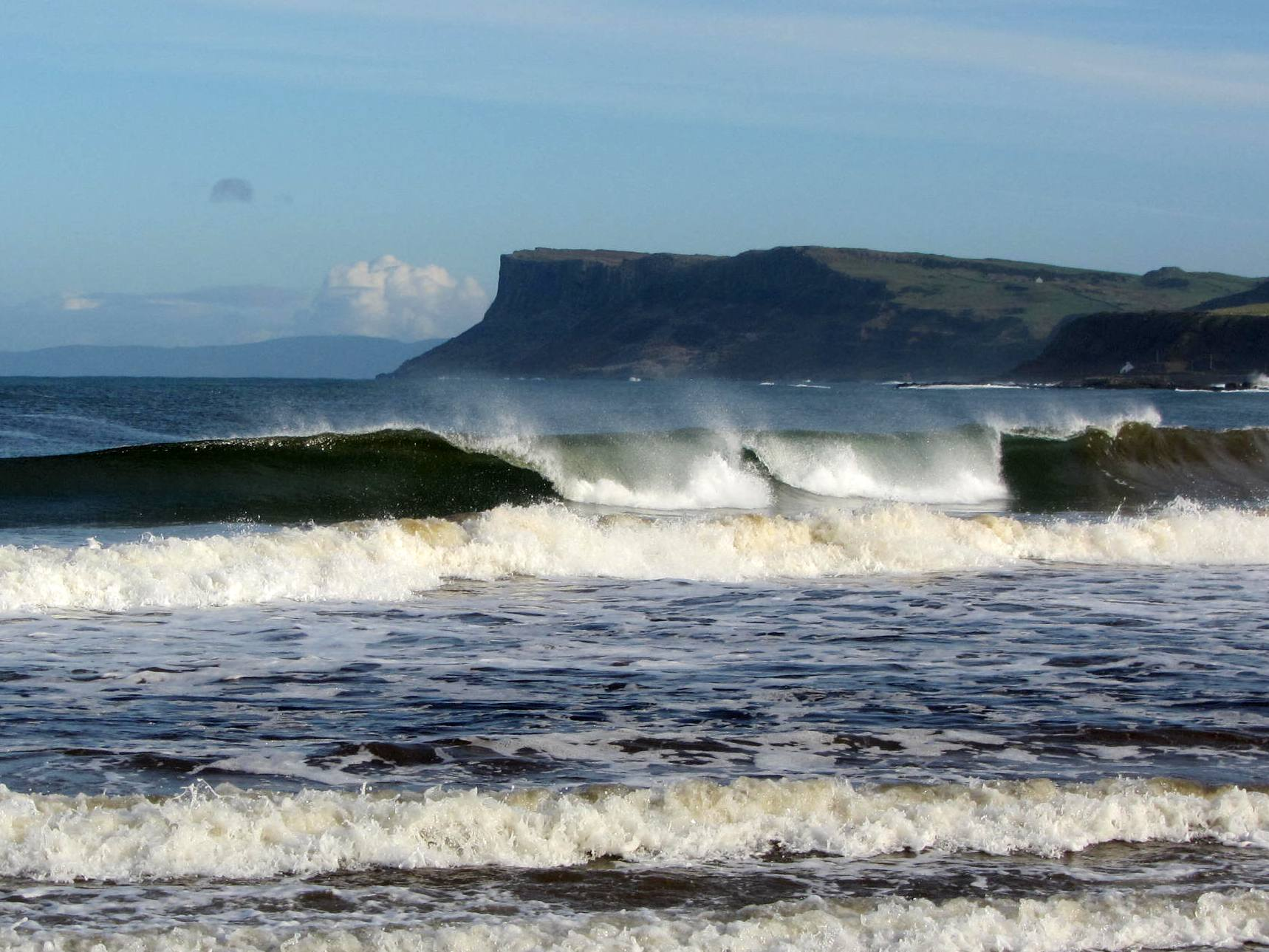 Antrim Coast near Ballycastle, Ireland, with Scotland in background